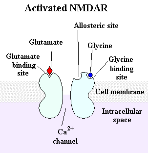 Activated NMDAR